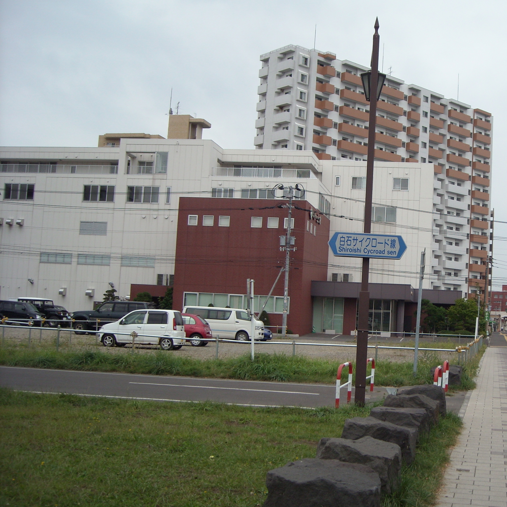 Starting point of the Hokkaido Prefectural Road Route 1148 near Subway Higashi-Sapporo Station